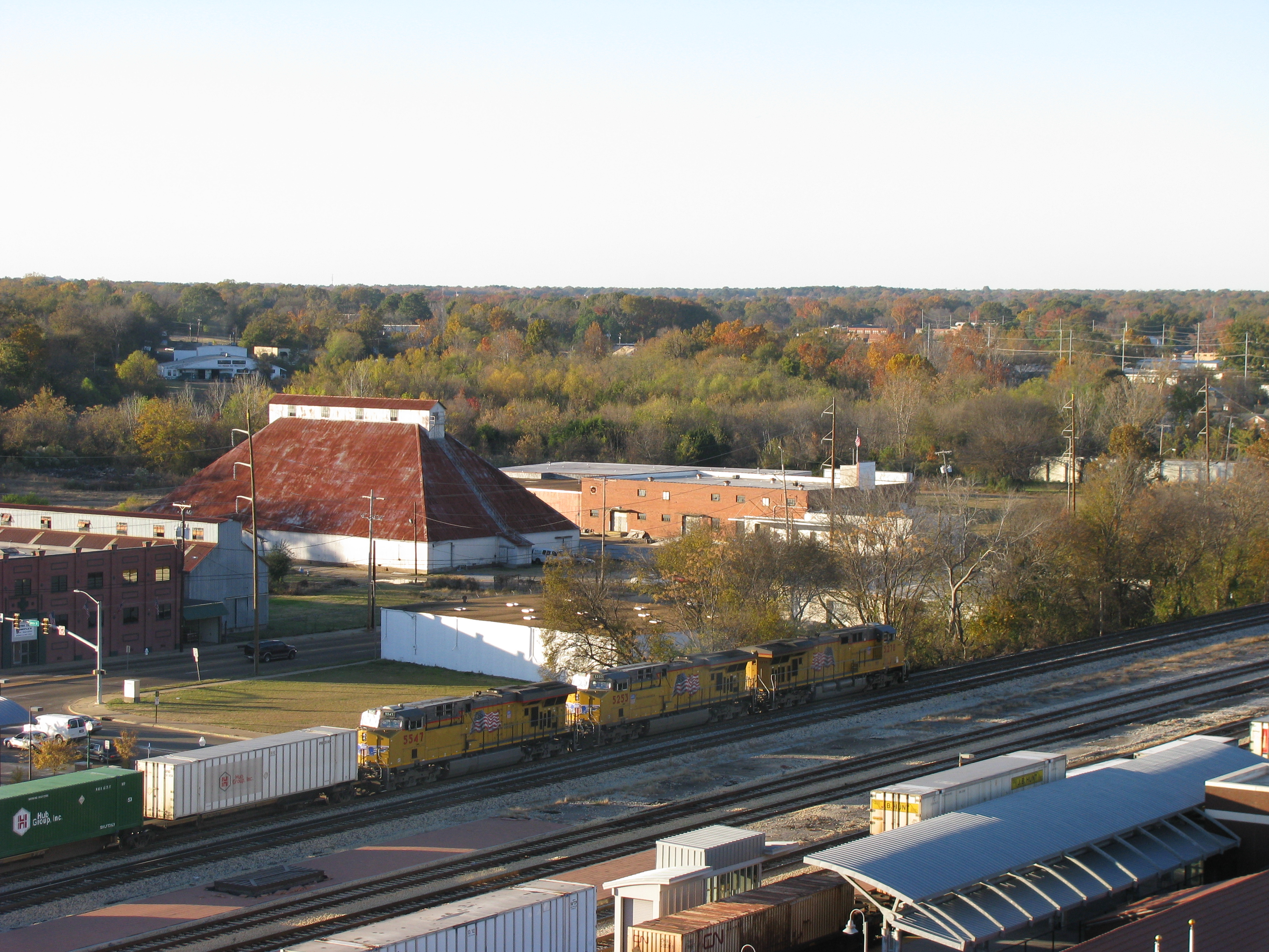 View northwest from the King Edward Hotel of the old seed house that belonged to the Mississippi Cottonseed Oil Company, Jackson, Mississippi, USA